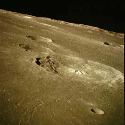 Bullialdus crater form Apollo-16